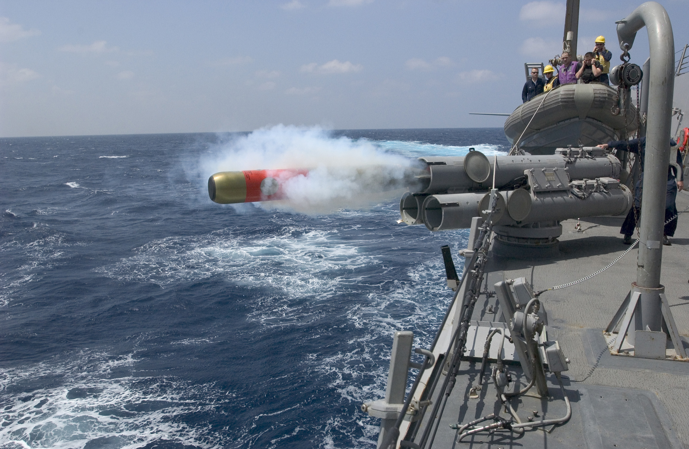 PHILIPPINE SEA (April 12, 2007) - A MK-46 exercise torpedo is launched from the deck of Arleigh Burke-class guided-missile destroyer USS Mustin (DDG 89) during a torpedo launch exercise. U.S. Navy photo by Mass Communication Specialist John L. Beeman (RELEASED)